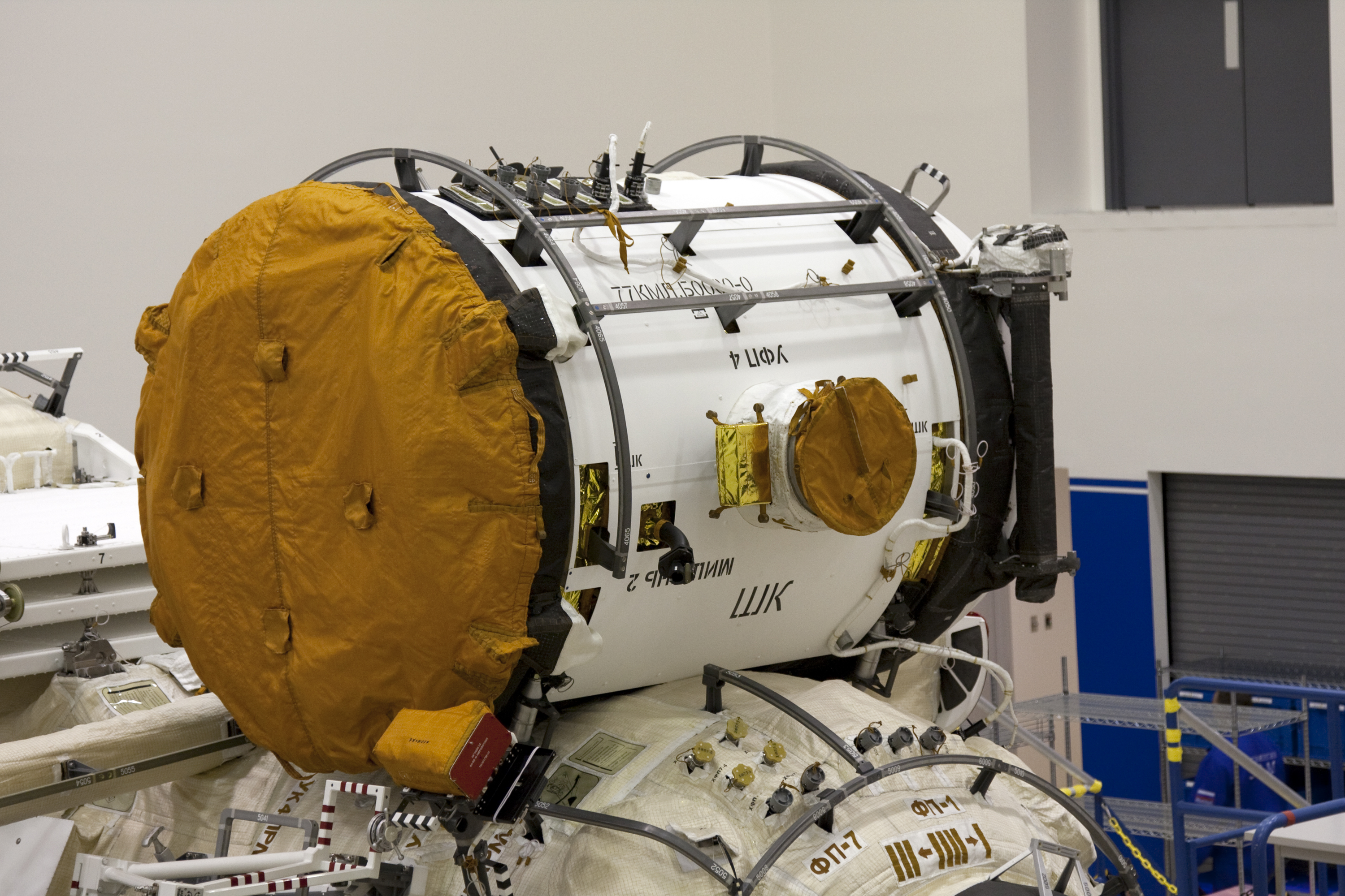 The Experiment airlock of the Russian-built Mini-Research Module-1, or MRM-1, is on display at a media event hosted by NASA and the Russian Federal Space Agency, Roscosmos, to showcase the MRM-1 in the Astrotech payload processing facility at Port Canaveral, Fla. The six-member crew of space shuttle Atlantis' STS-132 mission will deliver an Integrated Cargo Carrier and the MRM-1, known as Rassvet, to the International Space Station. The second in a series of new pressurized components for Russia, MRM-1 will be permanently attached to the Earth-facing port of the Zarya control module. Rassvet, which translates to "dawn," will be used for cargo storage and will provide an additional docking port to the station. STS-132 is the 34th mission to the station and the 132nd space shuttle mission. Launch is targeted for May 14.